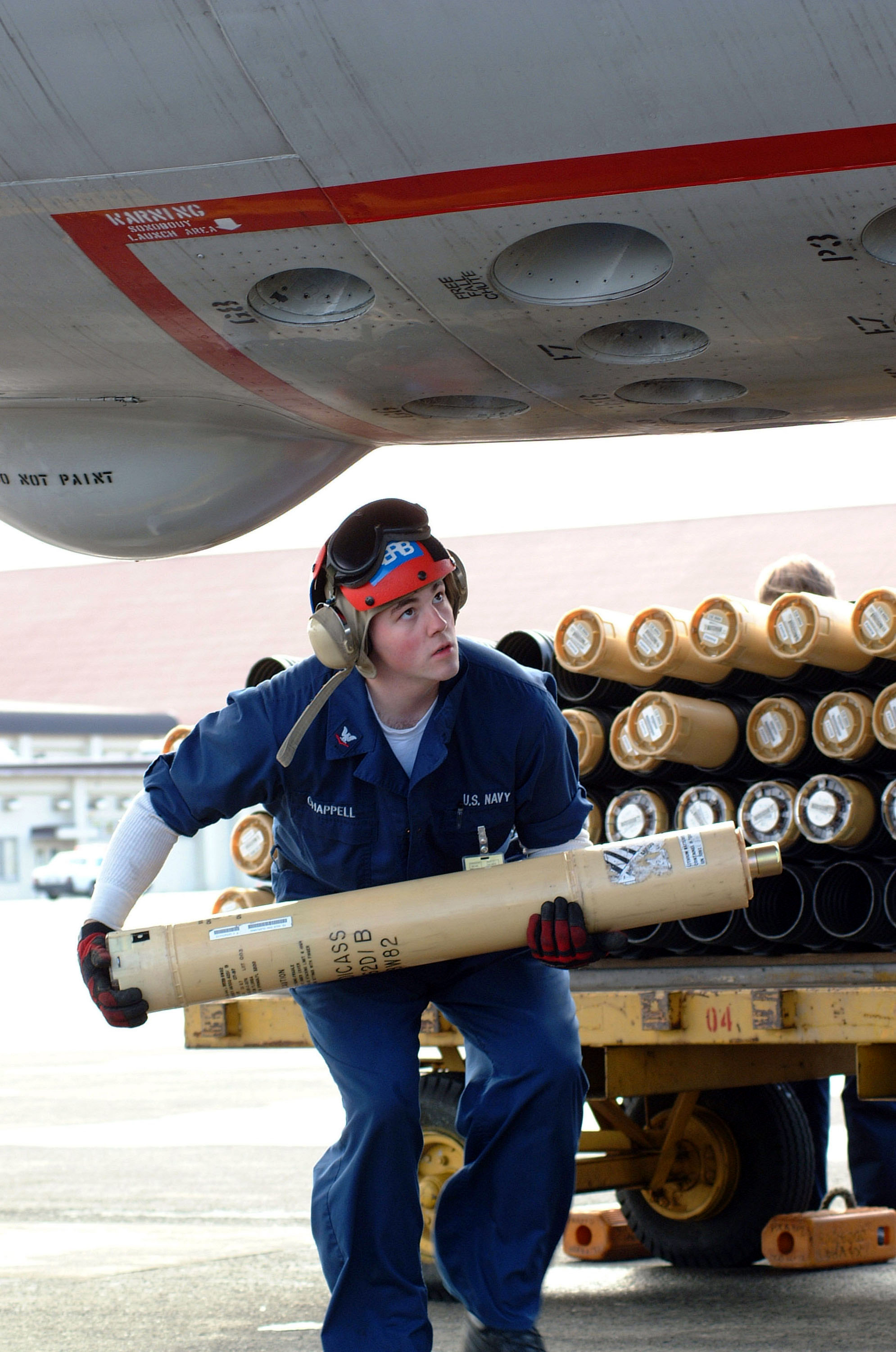 020122-N-9777F-002 Misawa, Japan (Jan. 22, 2002) -- Aviation Ordnanceman 3rd Class Herbert G. Chappell loads sonobuoys into a P-3 "Orion" aircraft. Sonobouys are a directional frequency and ranging (DIFAR) device, and are deployed from the aircraft to search for underwater submarine activity. Chappell is assigned to the "Fighting Marlins" of Patrol Squadron Four Zero (VP-40) currently deployed to Naval Air Facility Misawa, Japan. U.S. Navy Photo by Photographer's Mate 2nd Class Nicholas Fry. (RELEASED)